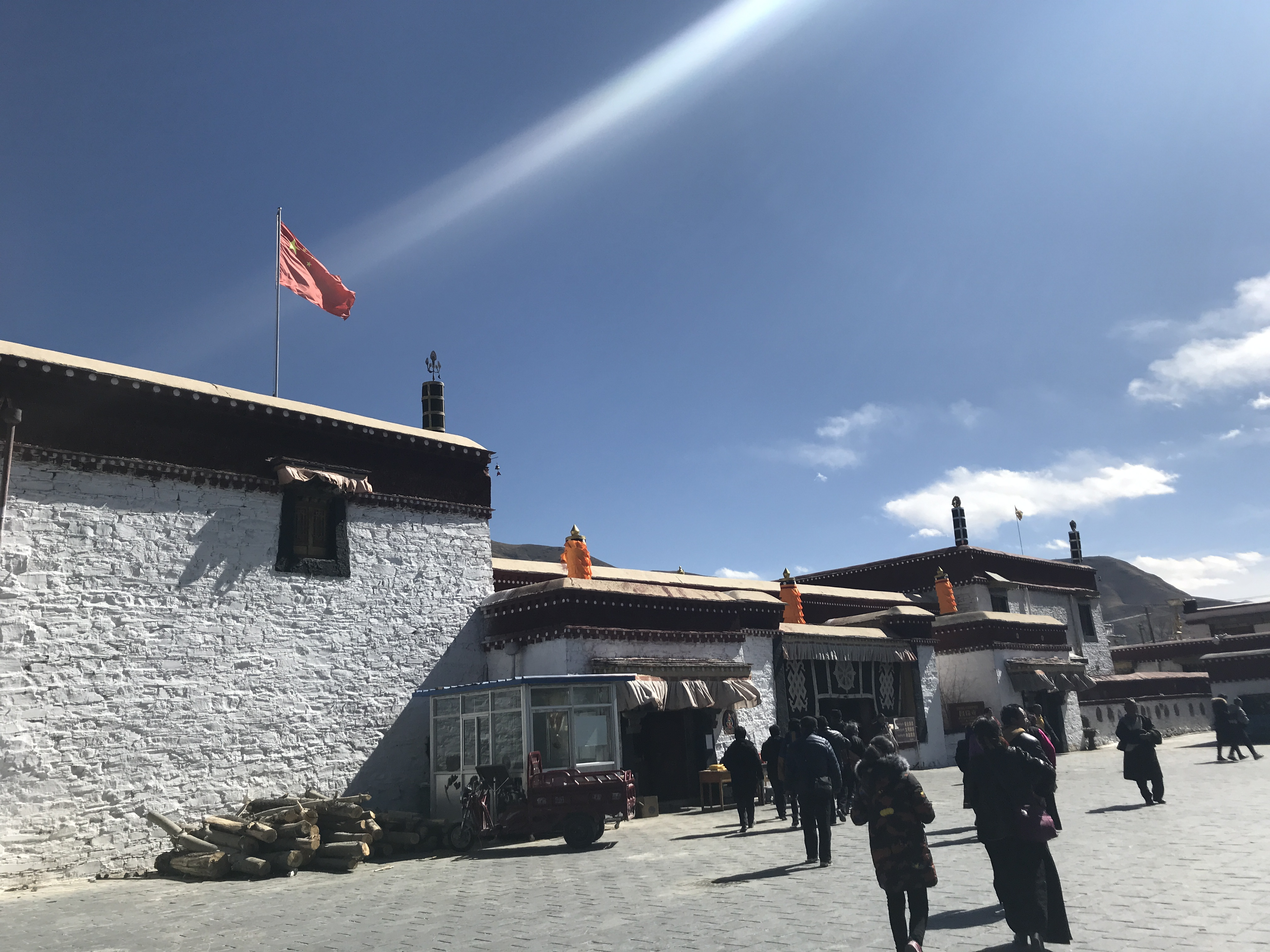 Square in front of Tradruk Monastery.